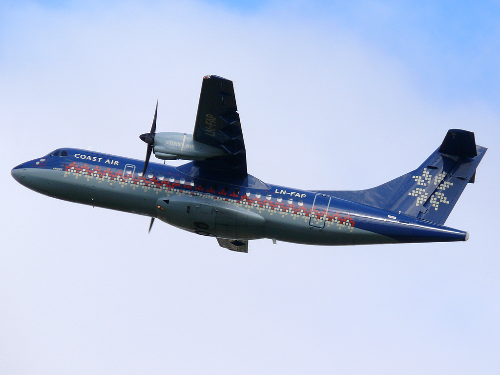 One of Coast Air's ATR-42s, LN-FAP. Photo taken at Ängelholm Airport, Sweden.